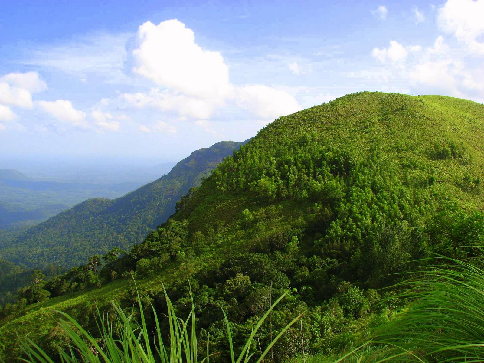 A view of Ponmudi hill station in the Thiruvananthapuram district of Kerala in India.